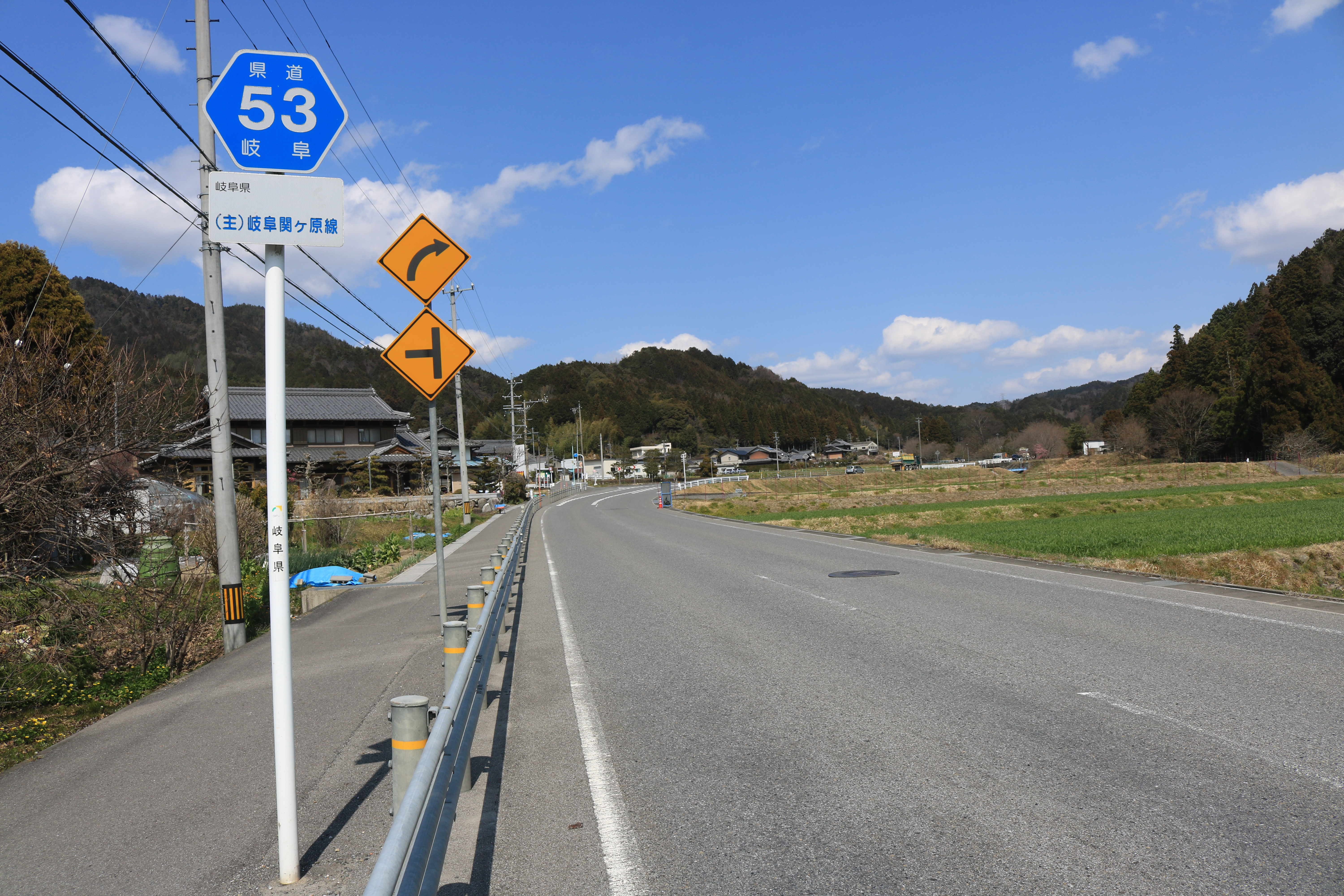 Gifu Prefectural Road Route 53 in Umetani, Tarui, Gifu Prefecture, Japan.